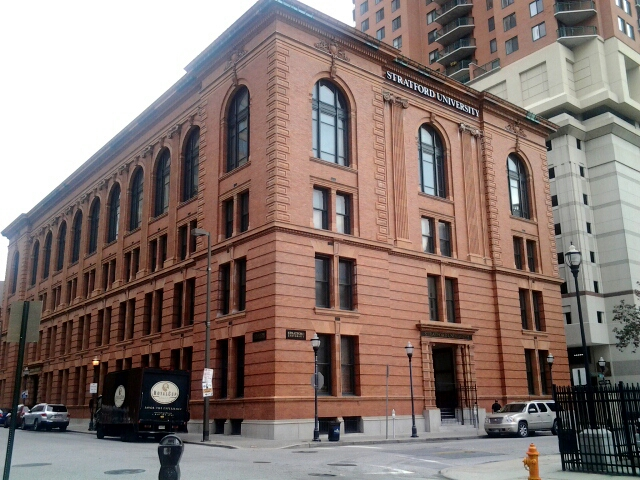 Chamber of Commerce Building This photo was uploaded with Wiki Loves Monuments mobile 1.2.1 (Android).